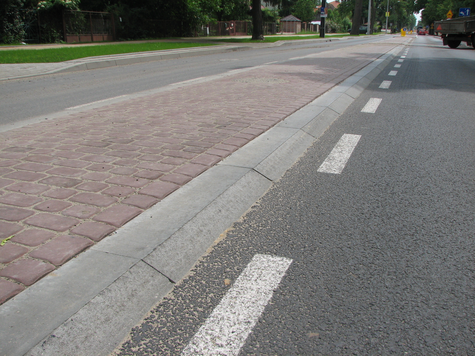 Traffic calming in Poland